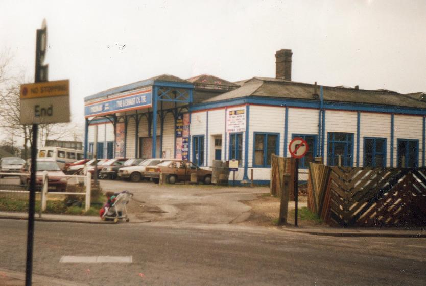 Rewley Road railway station before removal to Bucks Railway Centre